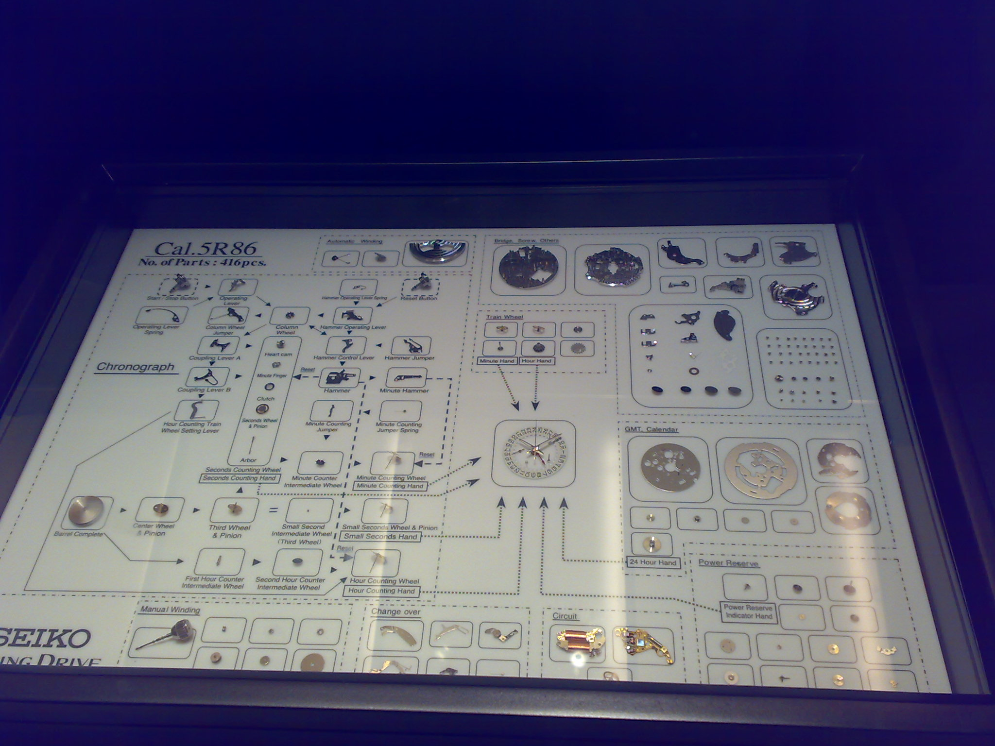 The Seiko Spring Drive 5R86 caliber broken down to its constituent parts. Displayed at the Seiko booth of the Athina Fair watch fair in Athens, Greece in November 2008